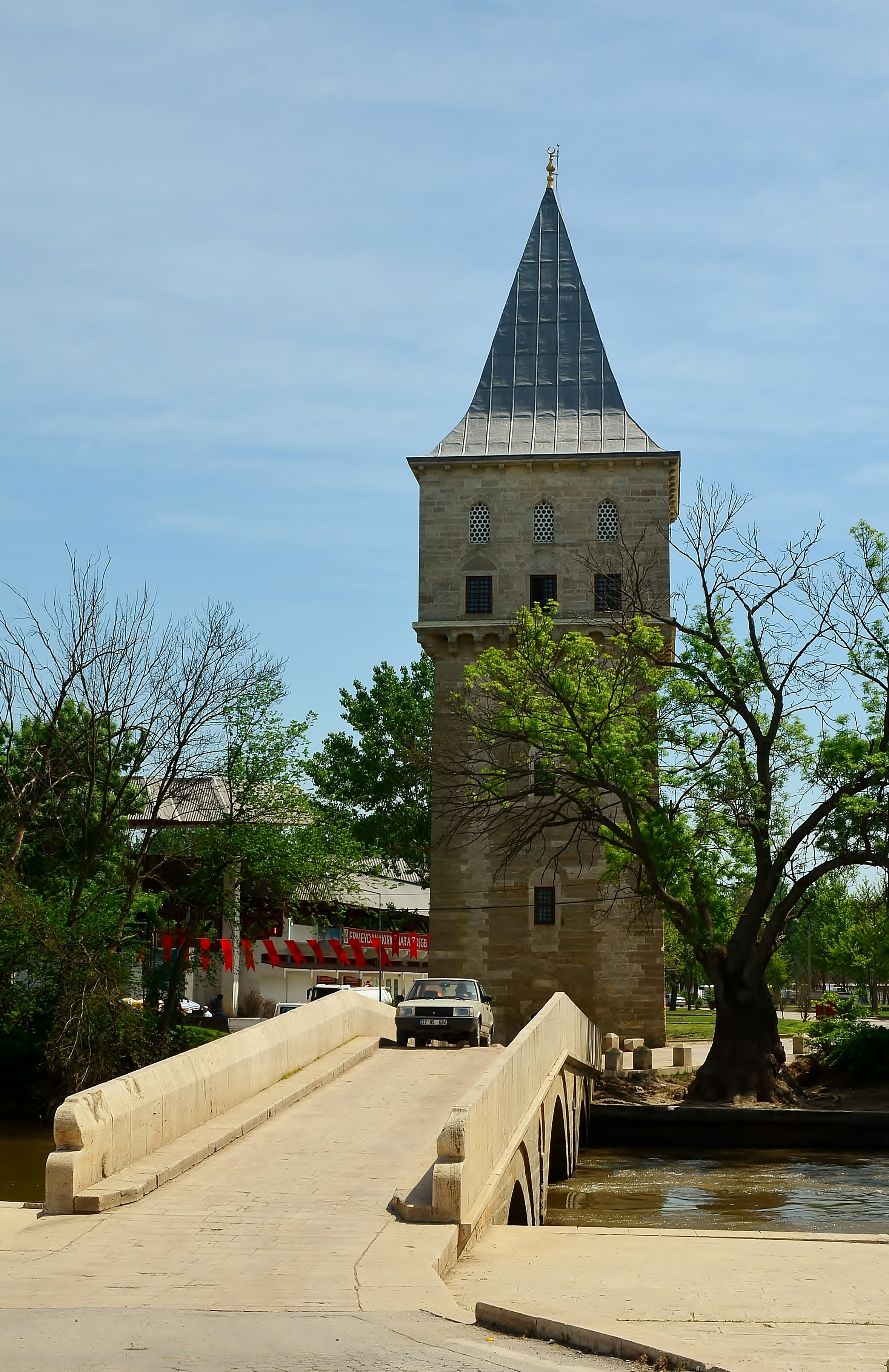 Fatih Bridge and Kasr-ı Adalet (Justice Pavillion) of Edirne Palace, Turkey